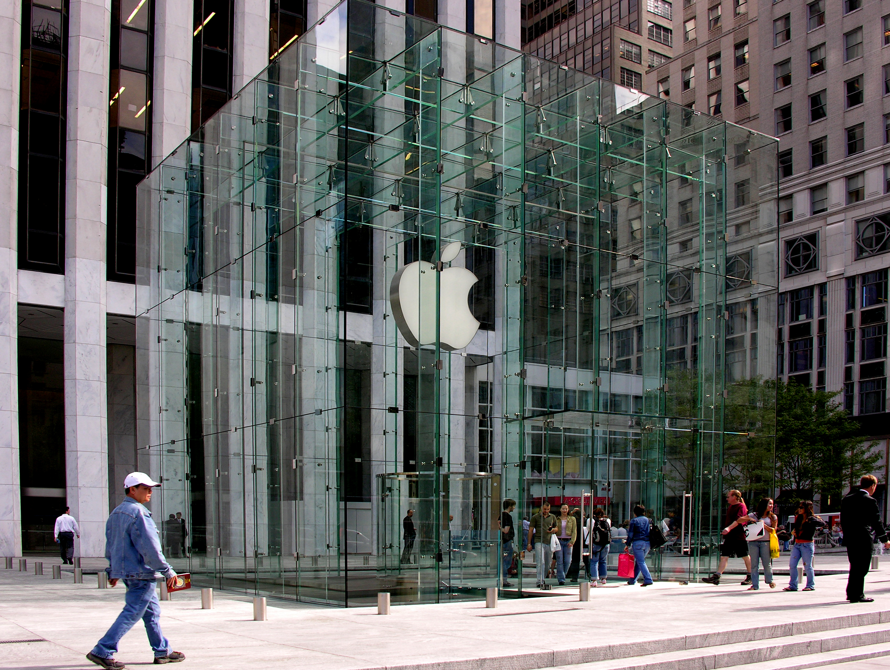 Apple Computer retail store on Fifth Avenue in New York City. The glass cube is the only portion of the Apple Store that stands above plaza level. Once inside, customers take a central cylindrical transparent glass elevator or surrounding spiral staircase to the sales floor below. The Apple Store Fifth Avenue is one of the most famous stores in the world